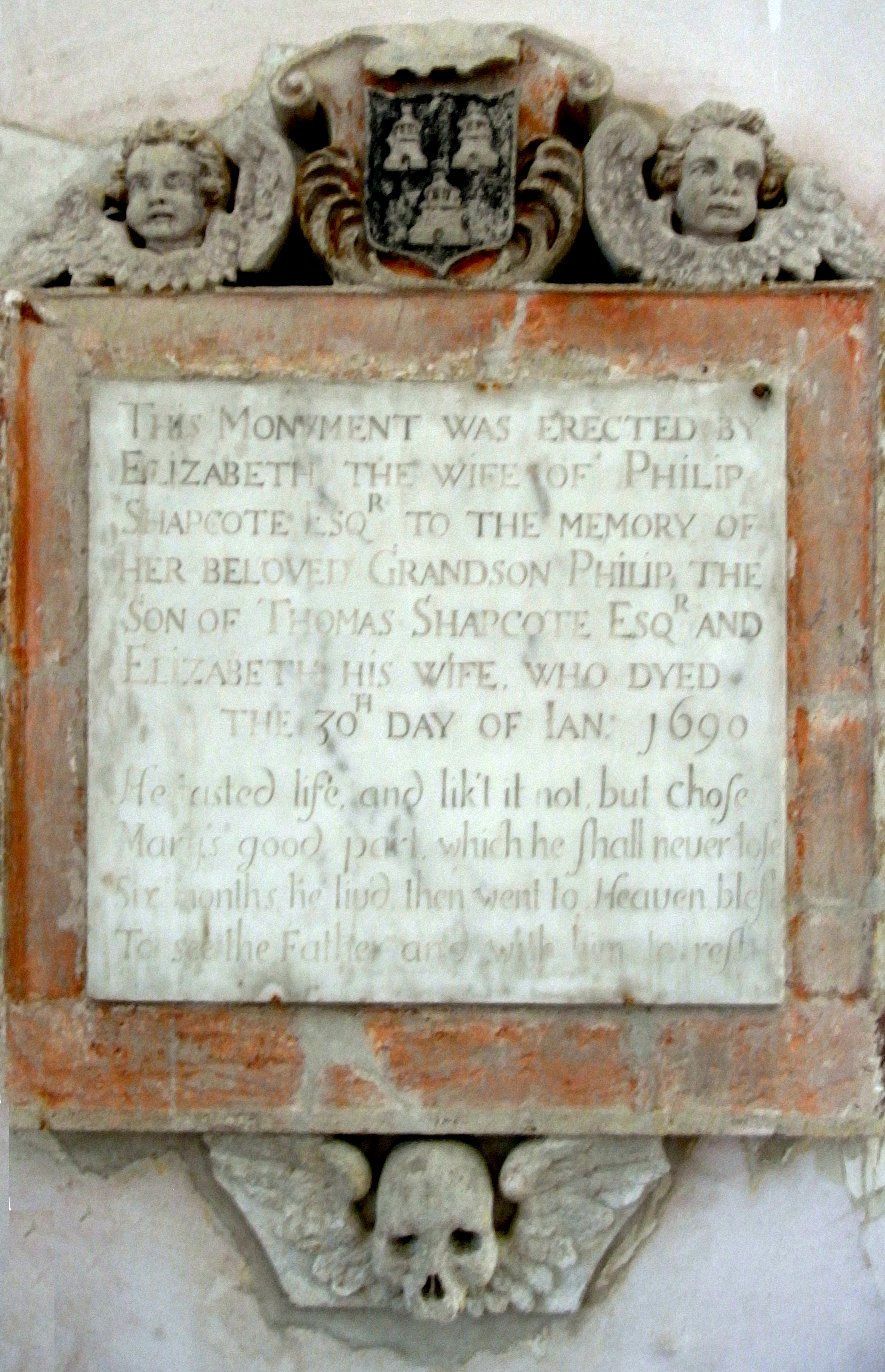 Mural monument to the infant Philip Shapcote (d.1690), St Peter's Church, Knowstone, Devon